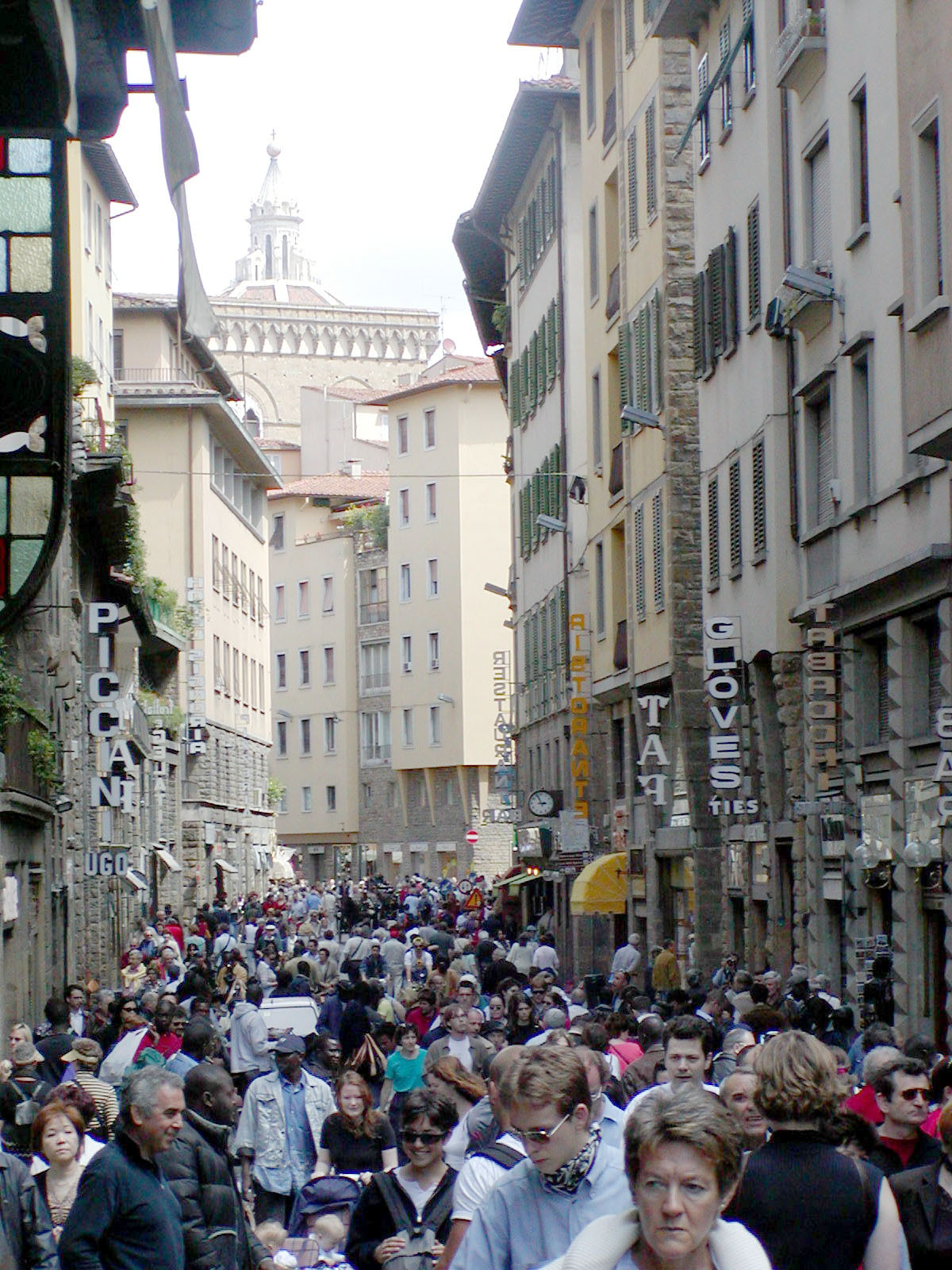 Tourists on Florence, seen from Ponte Vecchio